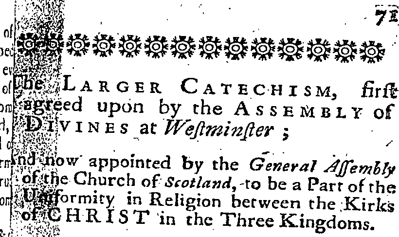 Fleuron from book: The confession of faith: and the larger and shorter catechisms. First agreed upon by the Assembly of Divines at Westminster: and now appointed by the General Assembly of the Kirk of Scotland, to be a Part of Uniformity in Religion between the Kirks of Christ in the Three Kingdoms. Together with the directions of the General Assembly concerning Secret and Private Worship: And the Sum of Saving Knowledge, with the Practical Use thereof.